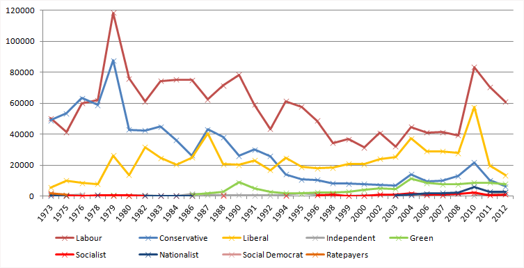 Total votes for Manchester local elections between 1973 and 2012. Labour: Labour, Independent Labour Conservative: Conservative, Independent Conservative Liberal: Liberal Party, Independent Liberal, SDP–Liberal Alliance, Liberal Party (UK, 1989), Liberal Democrat, Independent Liberal Democrat, Libertarian Independent: Independent, Freedom to Choose, Natural Law, FAN, LLDCS, Direct Action, Crown Force, Action for Better Local Education Socialist: CPGB, Socialist Unity, Workers Revolutionary, SWP, Communist (Marxist-Leninist), Independent Communist, Socialist Labour, Socialist Alternative, Communist League, Socialist Alliance, Respect, Democratic Socialist Alliance, United Socialist, Left List, TUSC, Socialist Equality Nationalist: British Campaign to Stop Immigration, National Front, BNP, UKIP Green: Ecology, Green Social Democrat: SDP (UK, 1988)